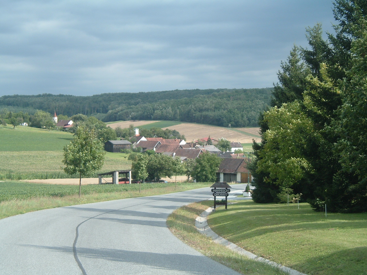 Harmisch (Hovárdos), Burgenland